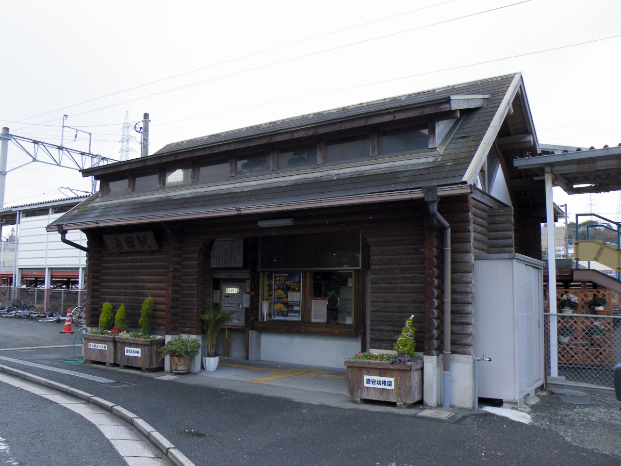 JR Kyushu Chikuho Main Line (aka Fukuhoku-Yutaka Line) Urata Station